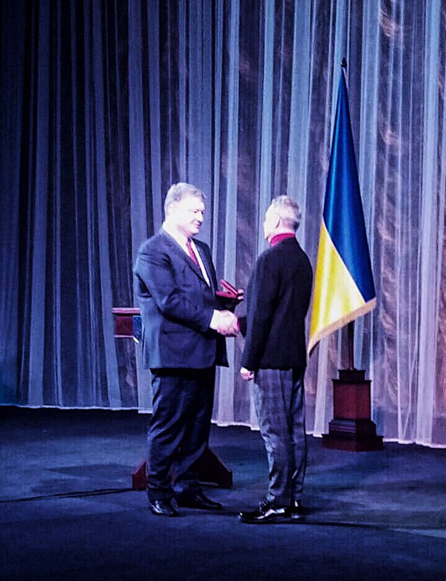 Ukrainian president Petro Poroshenko awards Igor Samarets in Kiev Opera House, 08.11.2017